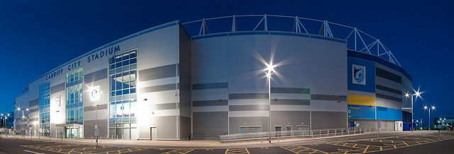 Cardiff City Stadium3